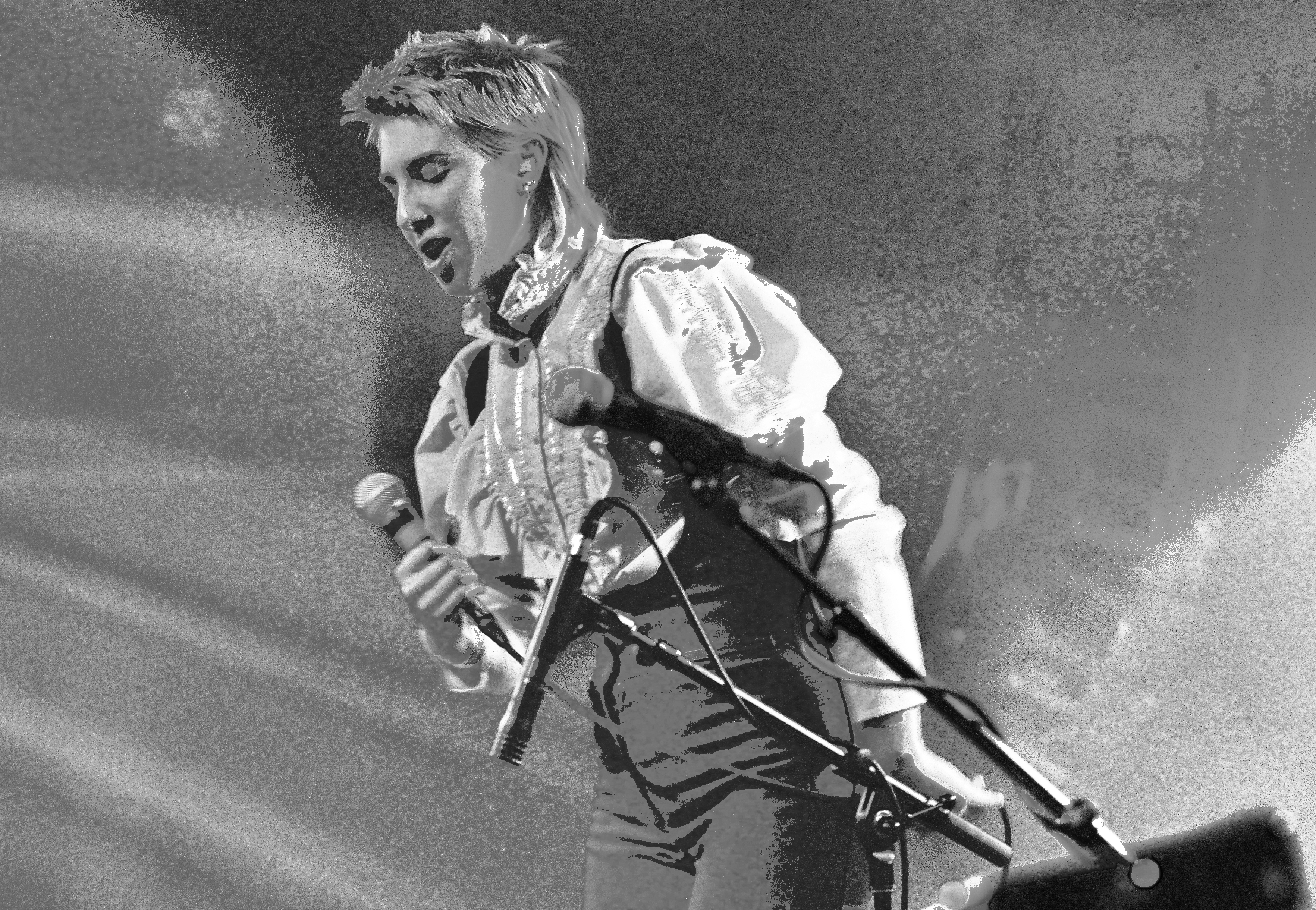 Asy Saavedra of Chaos Chaos performing at Neumos in Seattle November 30, 2017.